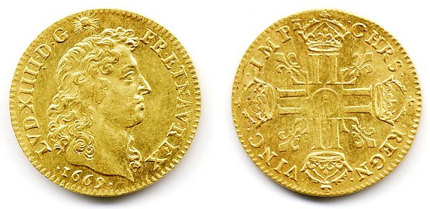 Gold coin "Louis" with french king Louis XIV